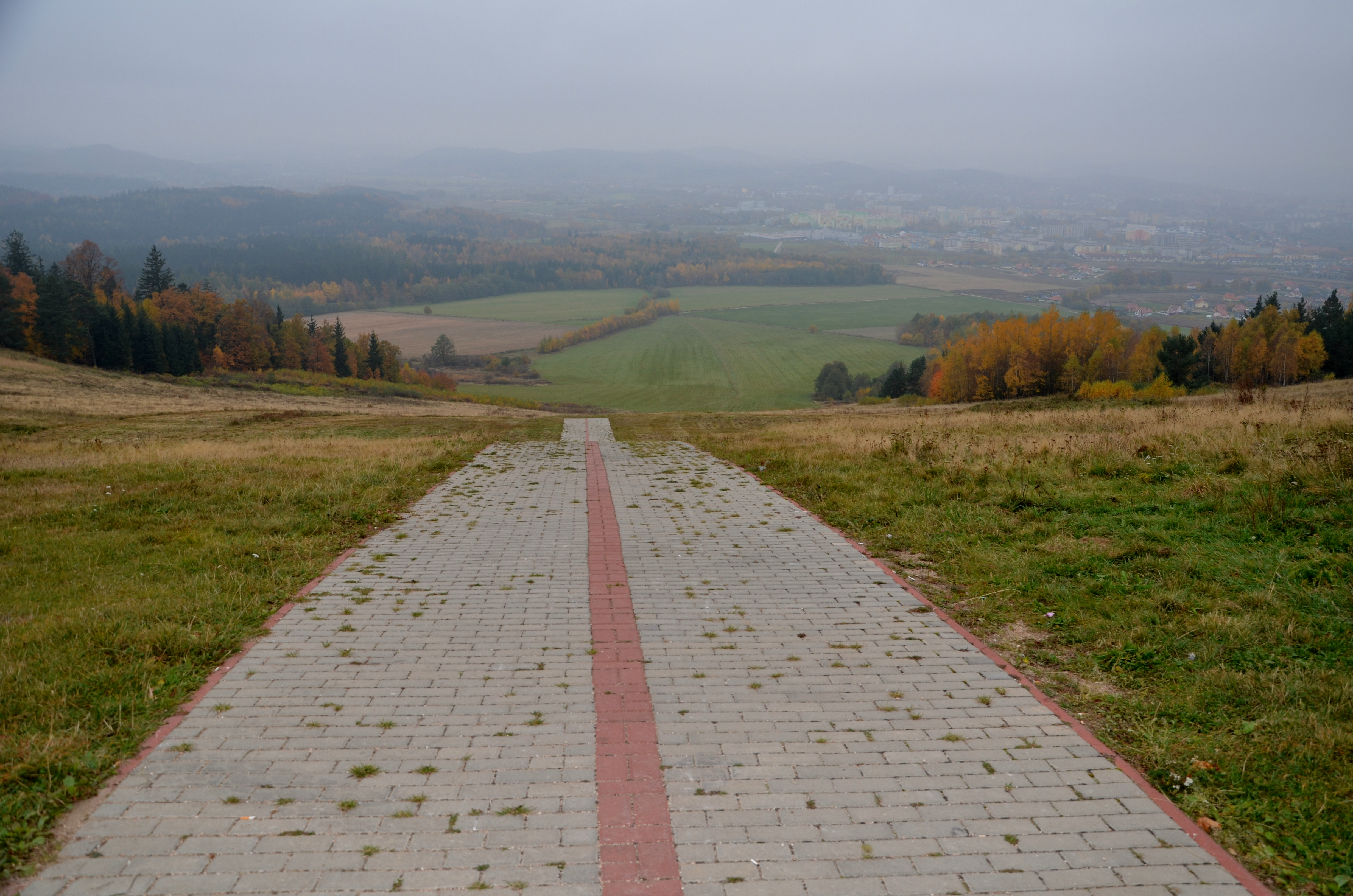 Downhill